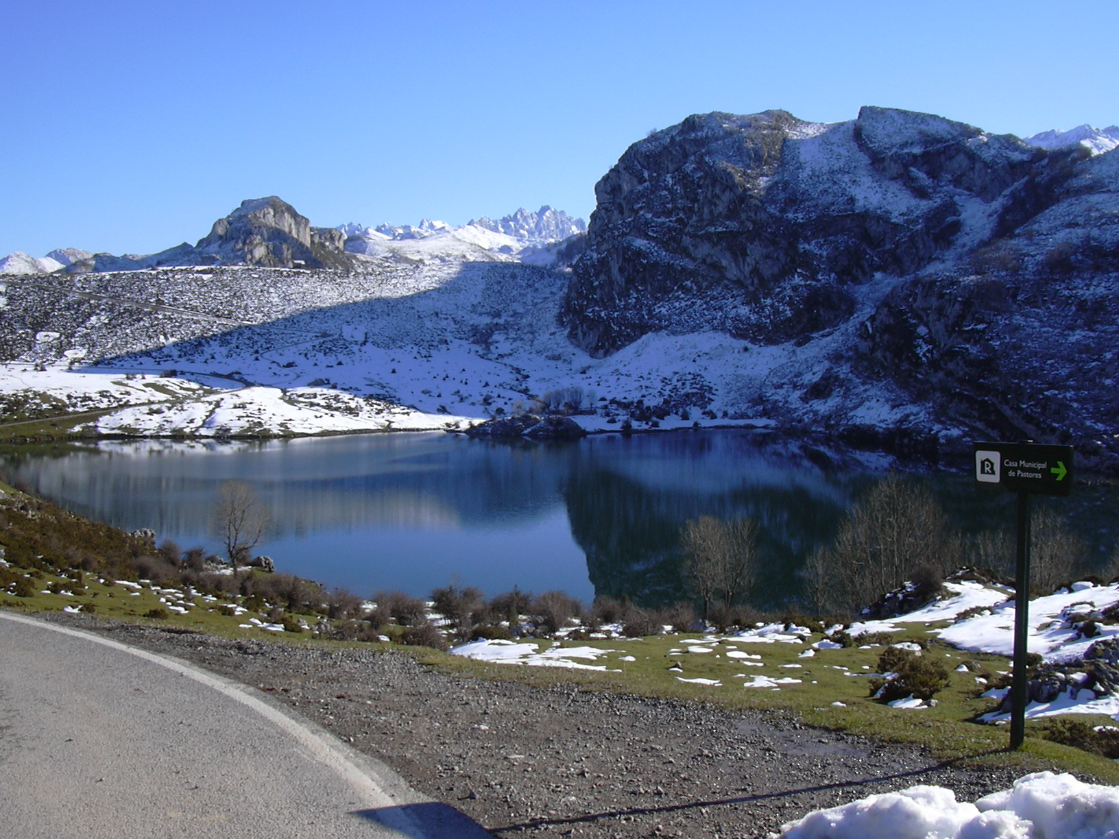 The Lake Enol in Asturias, Spain